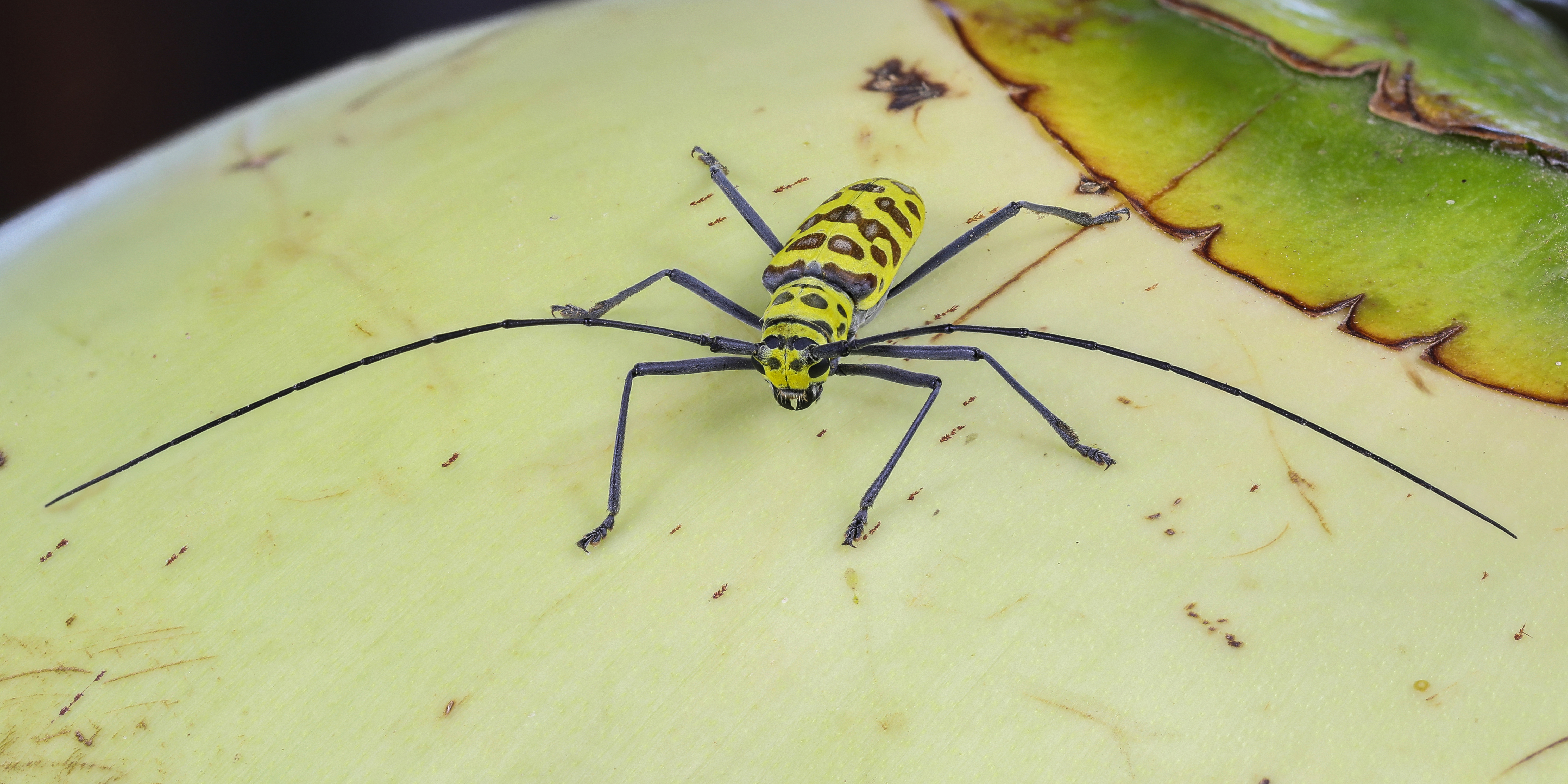 Gerania bosci bosci (longhorn beetle) on a coconut, in Si Phan Don, Laos. Length approximately 15 mm (0.59 in), width (with antennas) approximately 60 mm (2.4 in). Coleoptera, Cerambycidae, Lamiinae, Gerania, Gerania bosci bosci Fabricius, 1801. Focus stacking from 14 pictures.